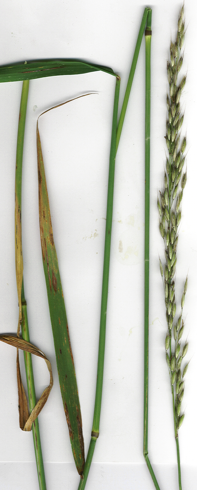 Arrhenatherum elatius (plant). Location: Maui, Auwahi